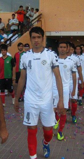 Faisal Sakhizada ahead of their match in SAFF Championship